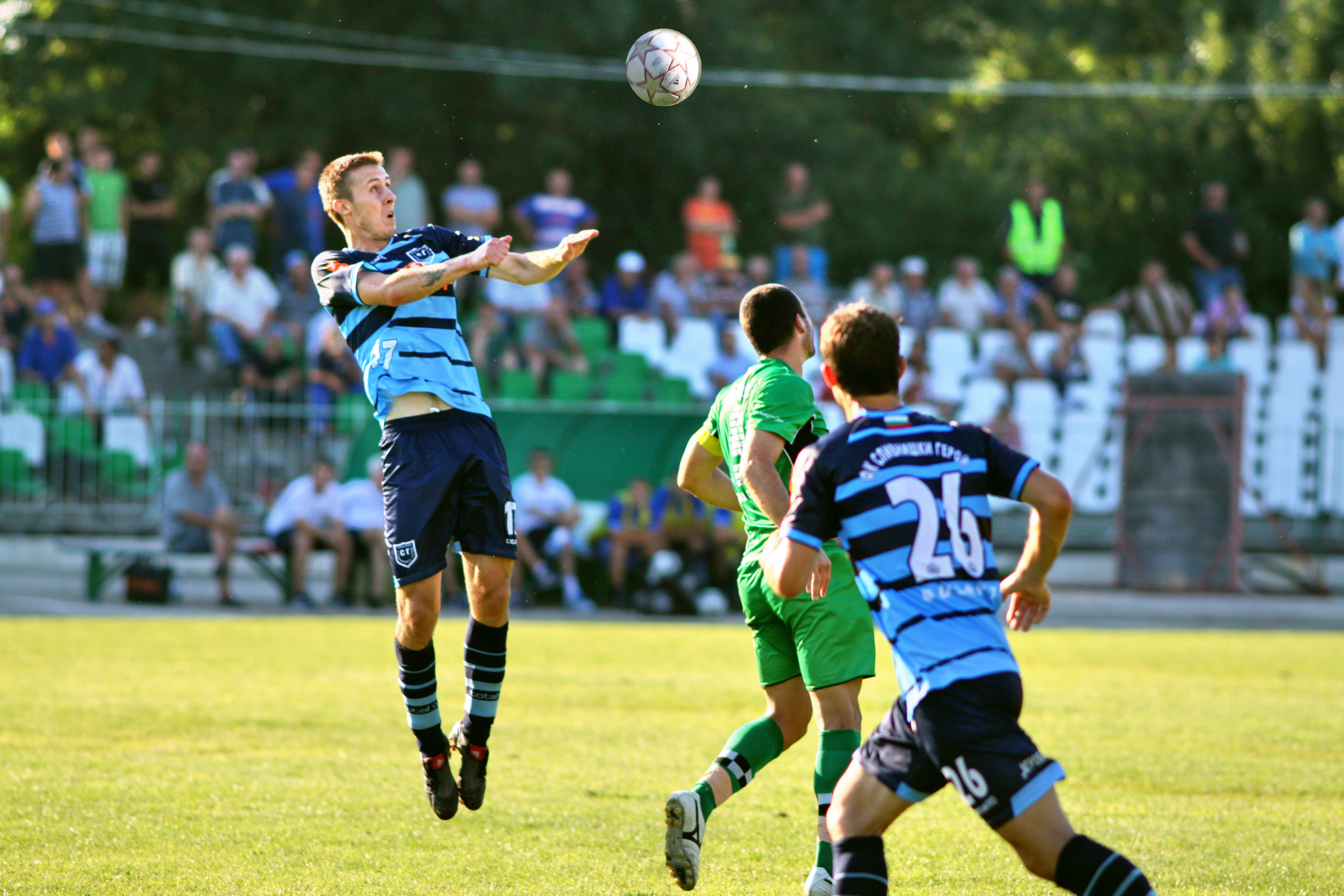 „Chavdar“, Biala Slatina : „Slivnishki geroi“ = 1 : 0 (2011/2012)